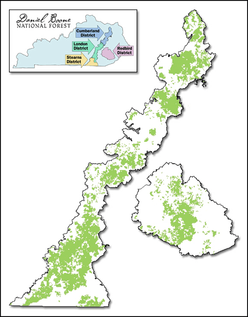 Boone National Forest Bounds 2016